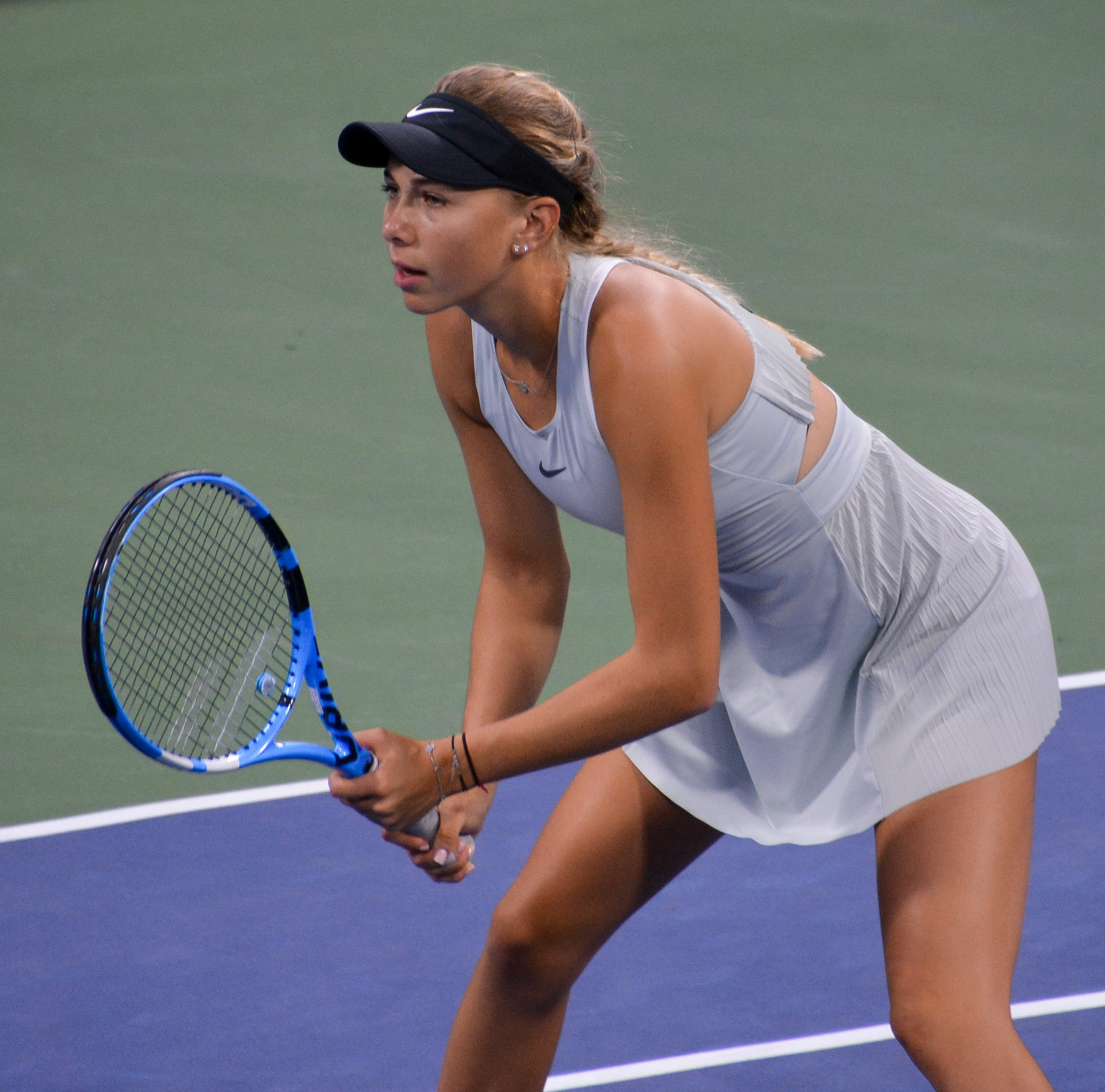 Amanda Anisimova & Michael Mmoh v Bethanie Mattek-Sands & Jamie Murray. Day 5 of US Open 2018.